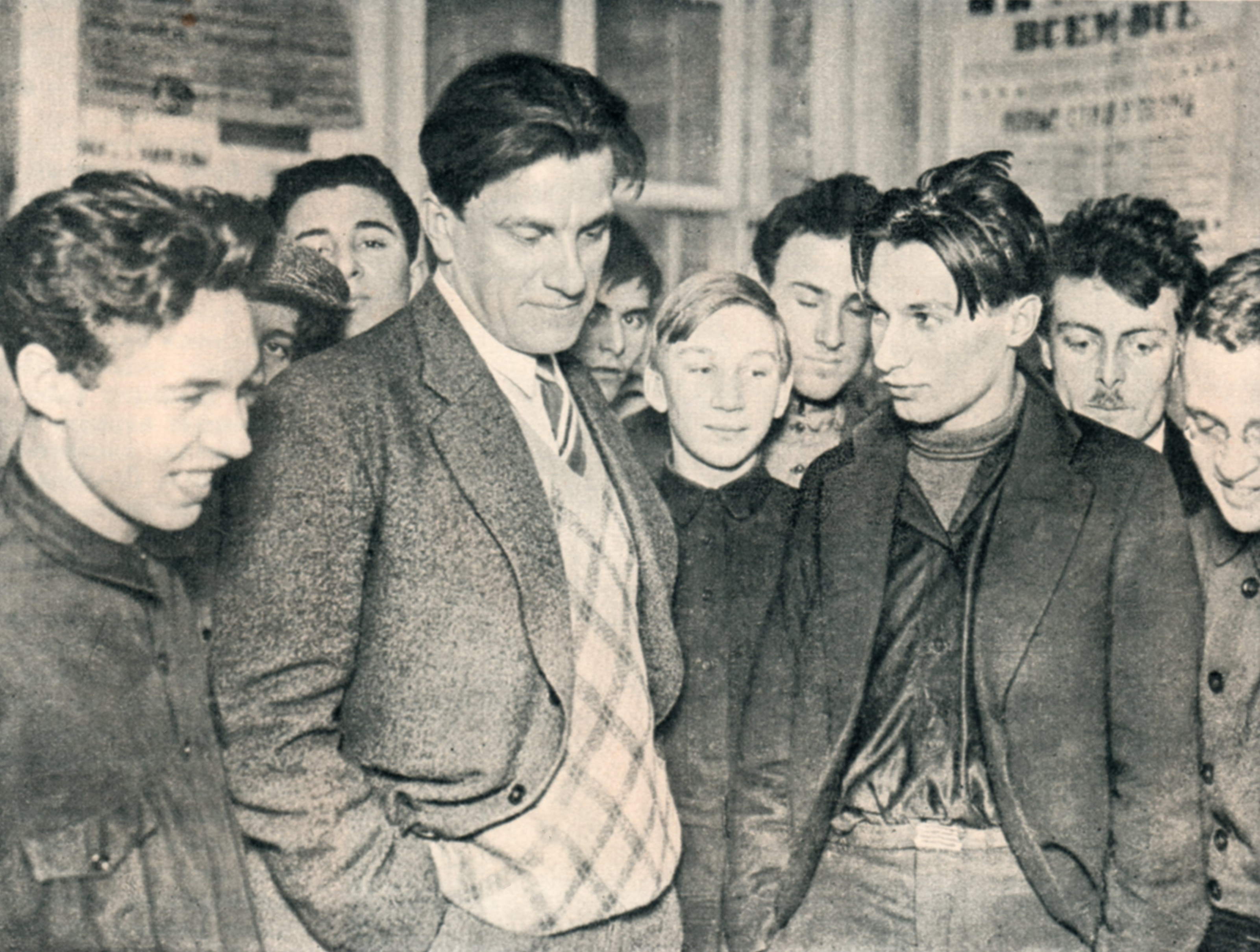 Vladimir Mayakovsky and Fedor Tarasov, 1930